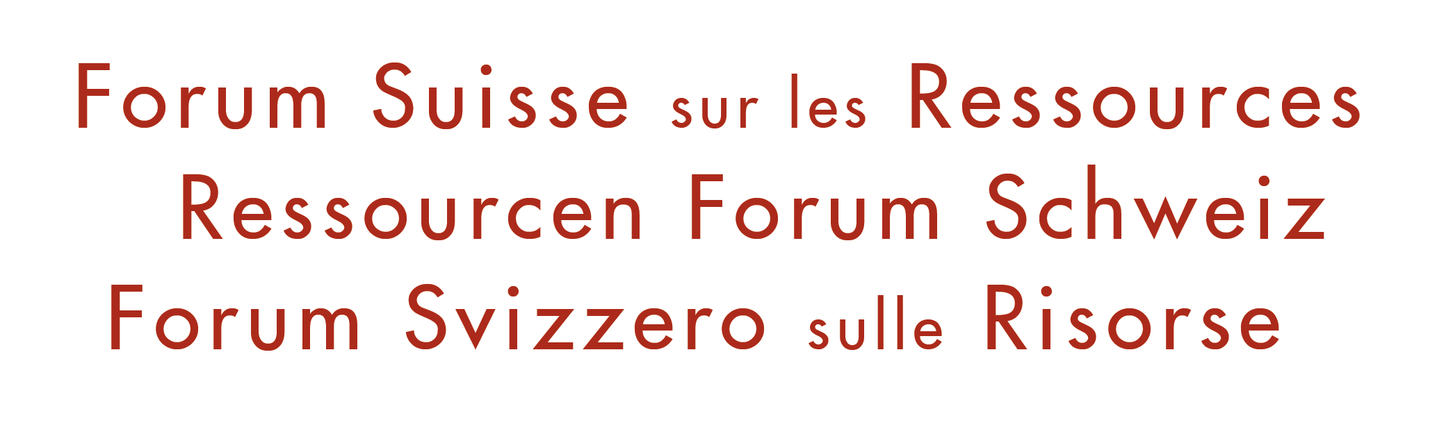 This image depicts the logo of the Ressourcen Forum Schweiz. It was created by María Lucía Híjar.